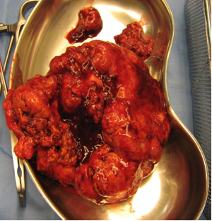 adrenocortical carcinoma after operative resection